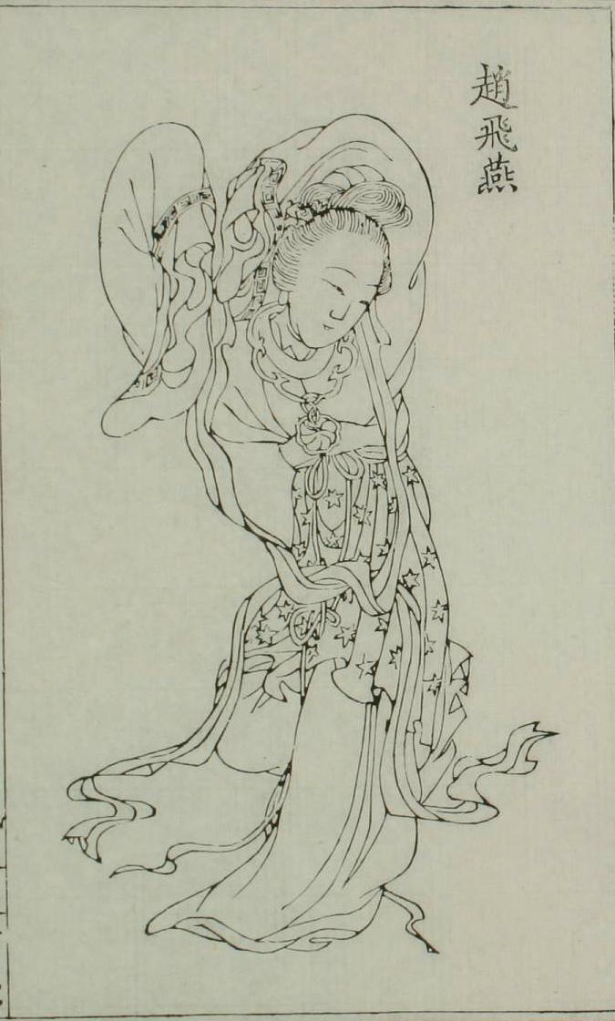 This is a image about the Empress Zhao Feiyan.